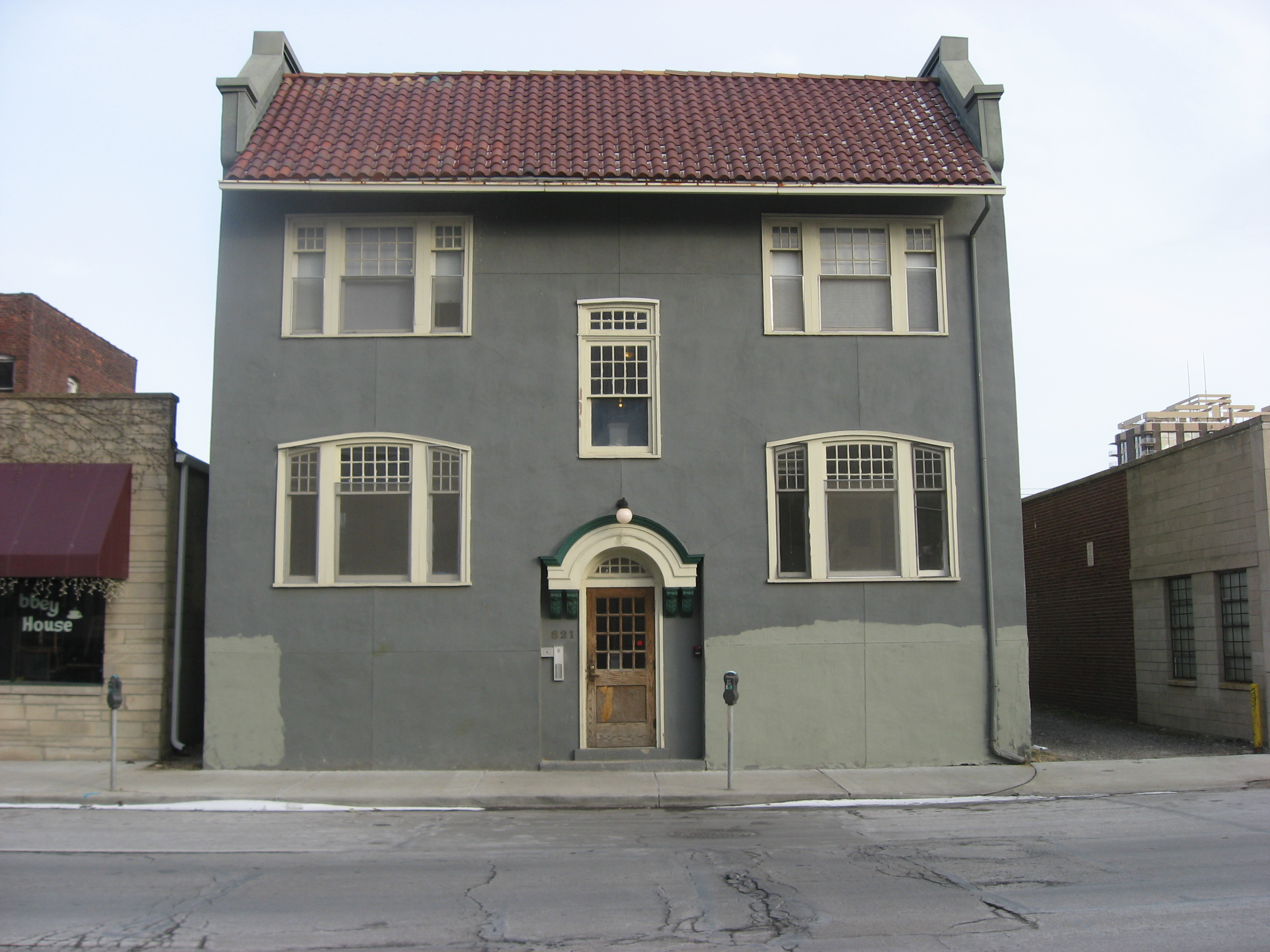 Front of The Burton, located at 821 N. Pennsylvania Street in Indianapolis, Indiana, United States. Built in 1920, it is listed on the National Register of Historic Places as one of the "Apartments and Flats of Downtown Indianapolis Thematic Resources".